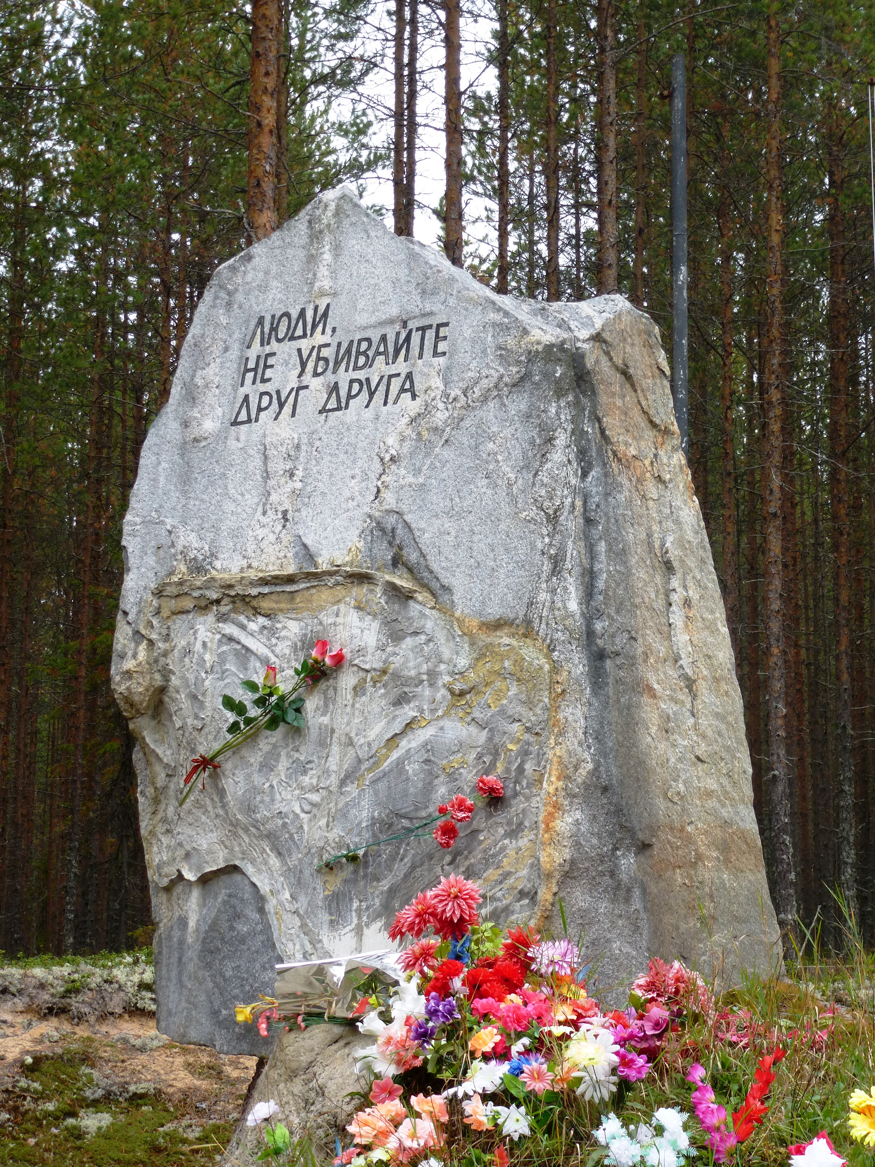 The monument is a granite clod with sculptural bas-reliefs and writing: "People, do not kill each other". The memorial stone at the site of execution and burial of victims of the Great Purge in Sandarmokh, forest massif near Medvezhyegorsk in the Republic of Karelia, Russia.